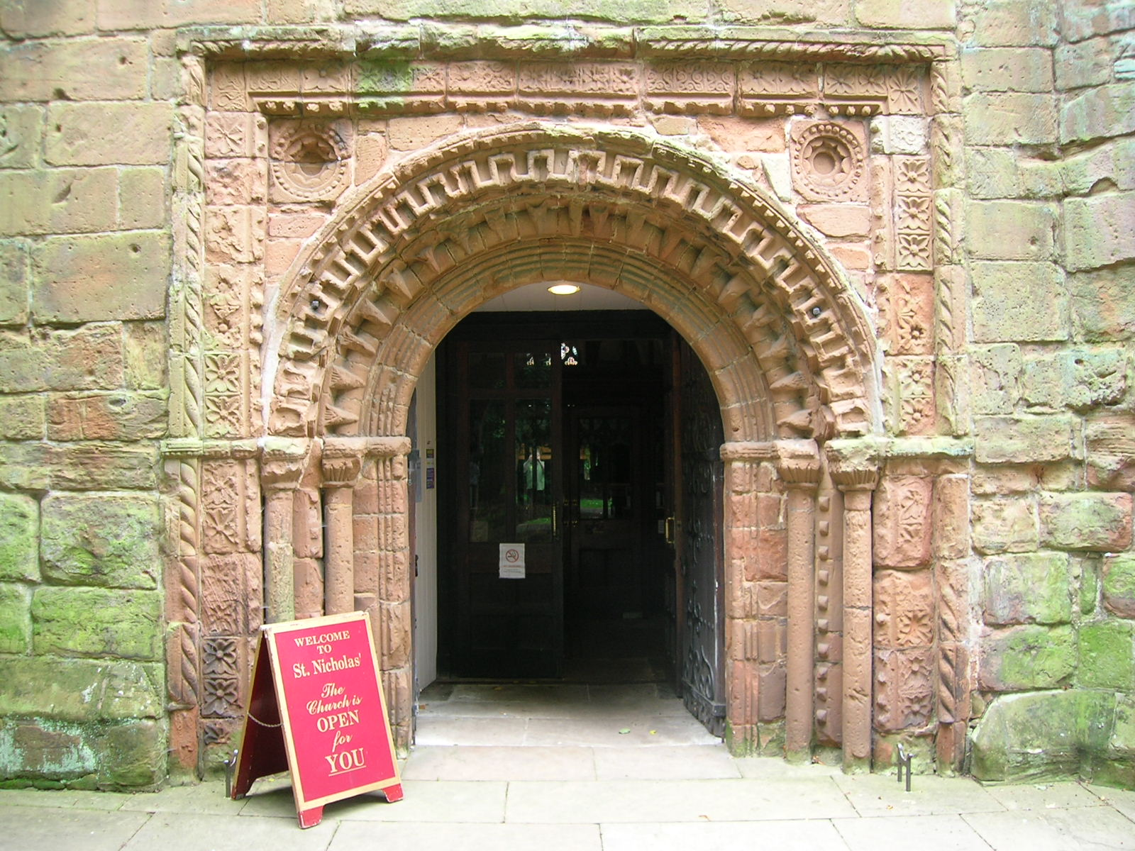 Norman west doorway of St Nicholas' parish church, Kenilworth, Warwickshire